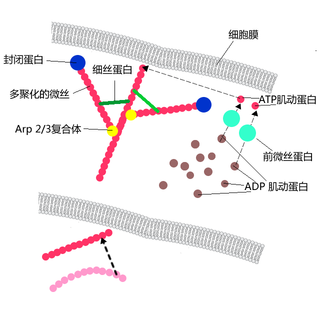 Protrusion formation in the Cell migration